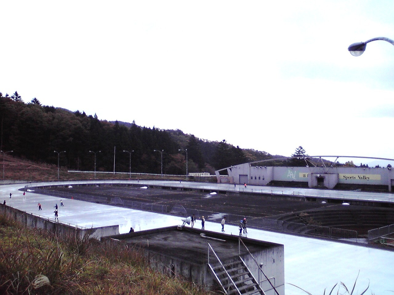 This is a skating link in Japan.